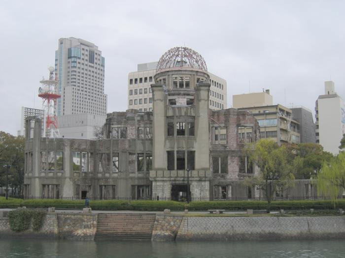 Hiroshima Prefectural Promotion Hall (the A-Bomb dome), the closest building to have withstood the atom bomb blast in Hiroshima.